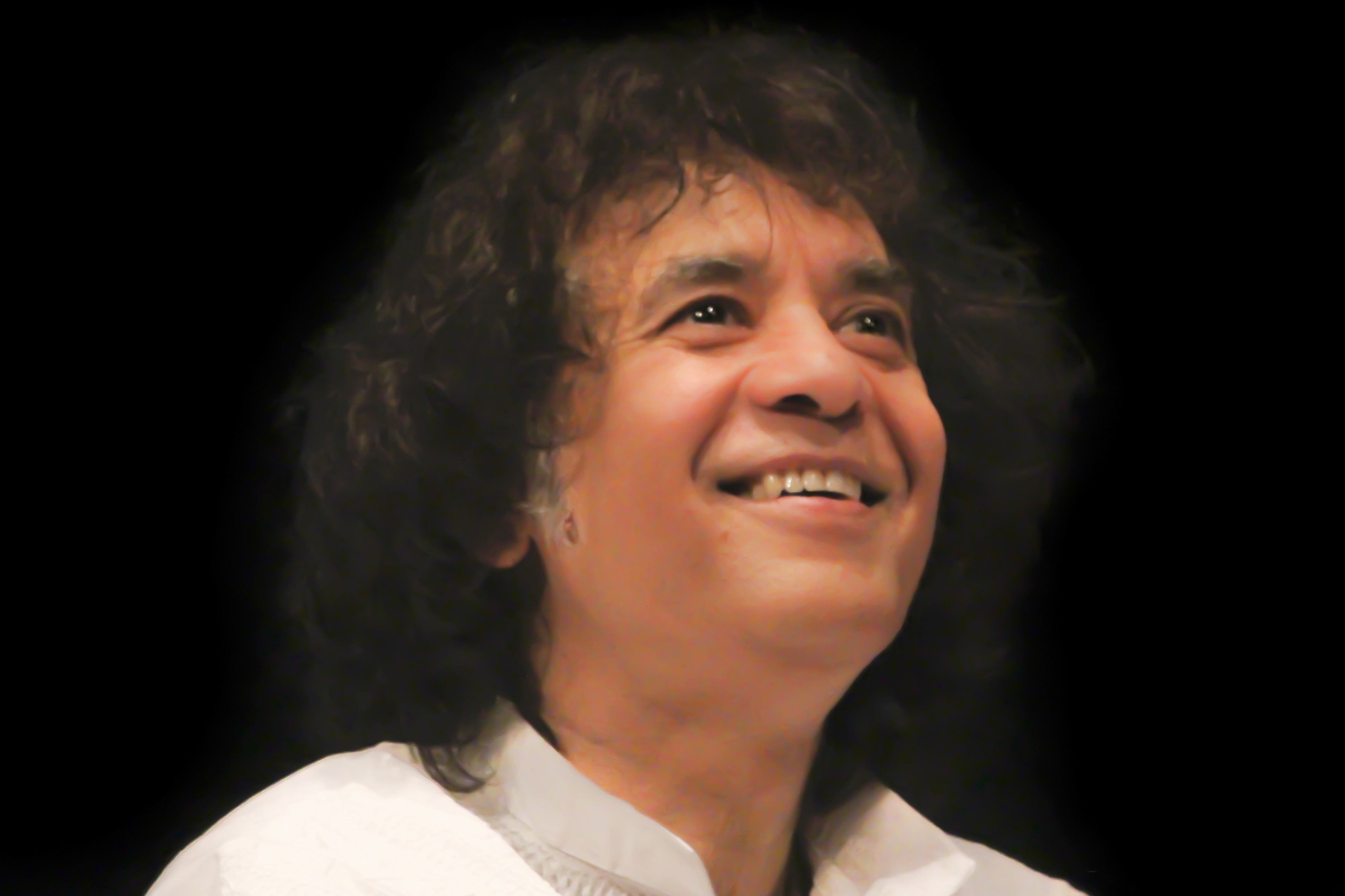 During Jagjit Singh Music Festival